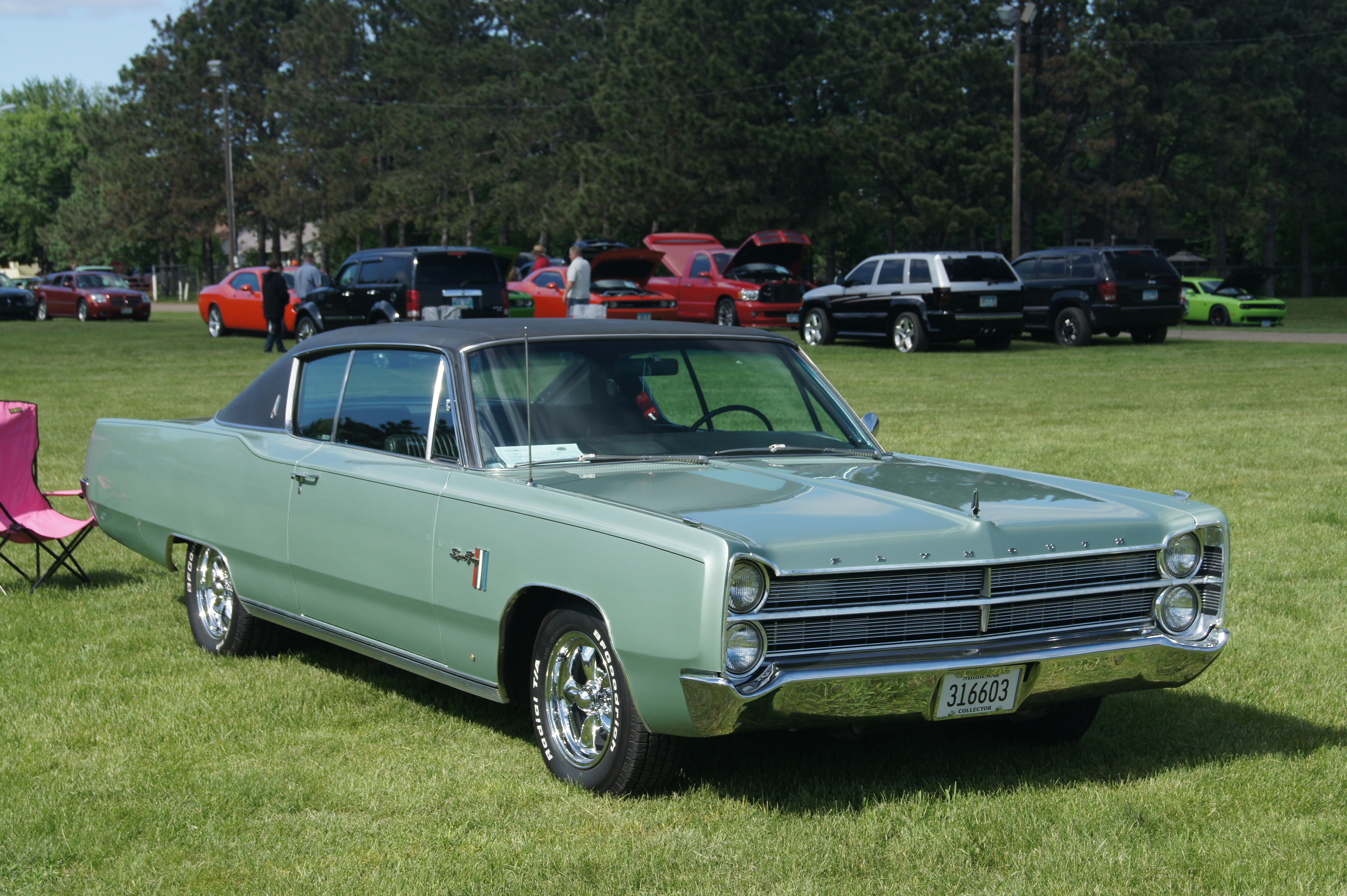 Midwest Mopars in the Park National Car Show & Swap Meet Dakota County Fairgrounds Farmington, Minnesota May 30 & 31, 2015 Click here for more car pictures at my Flickr site.